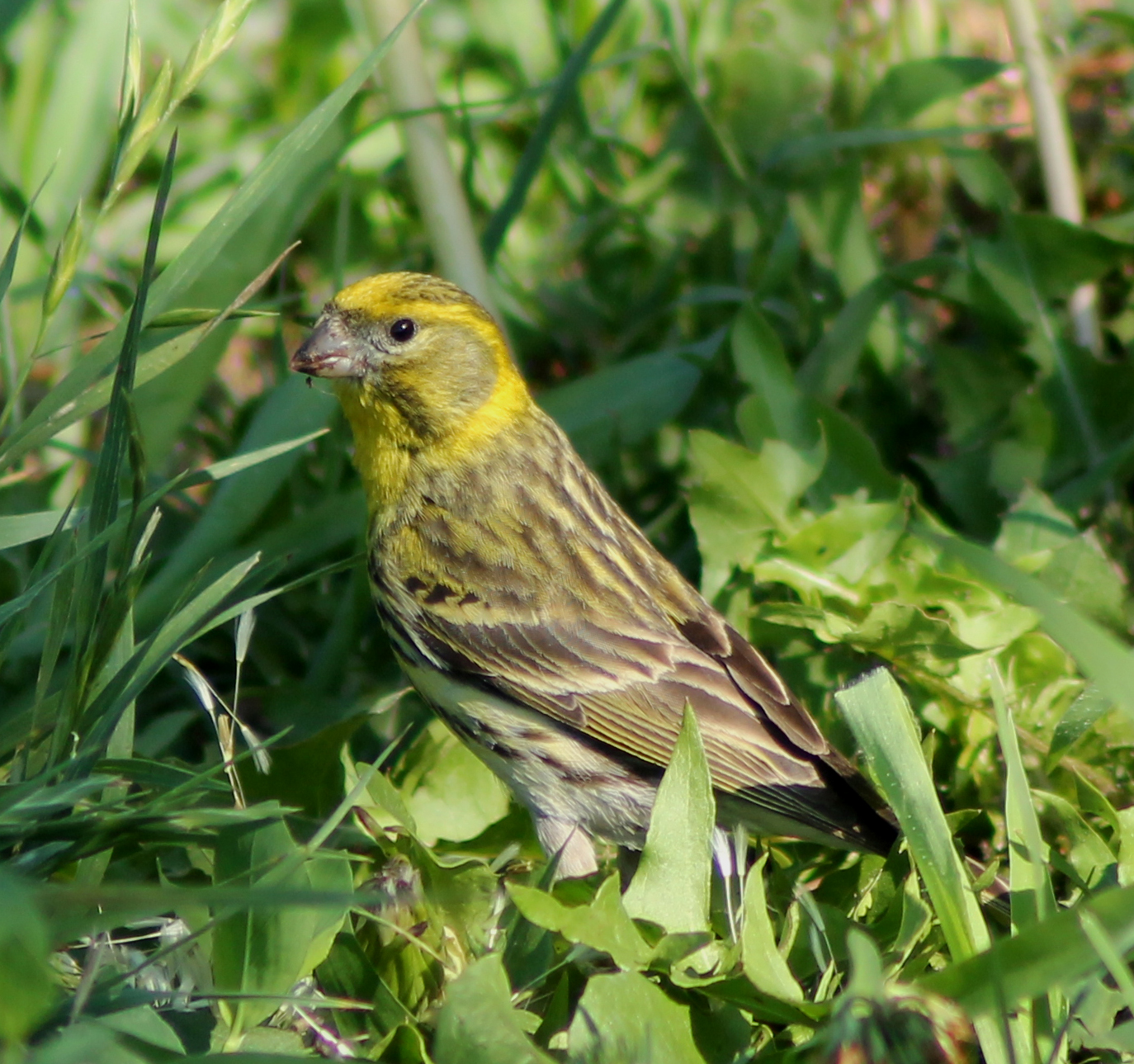 A male European Serin (Serinus serinus) in Madrid (Spain).